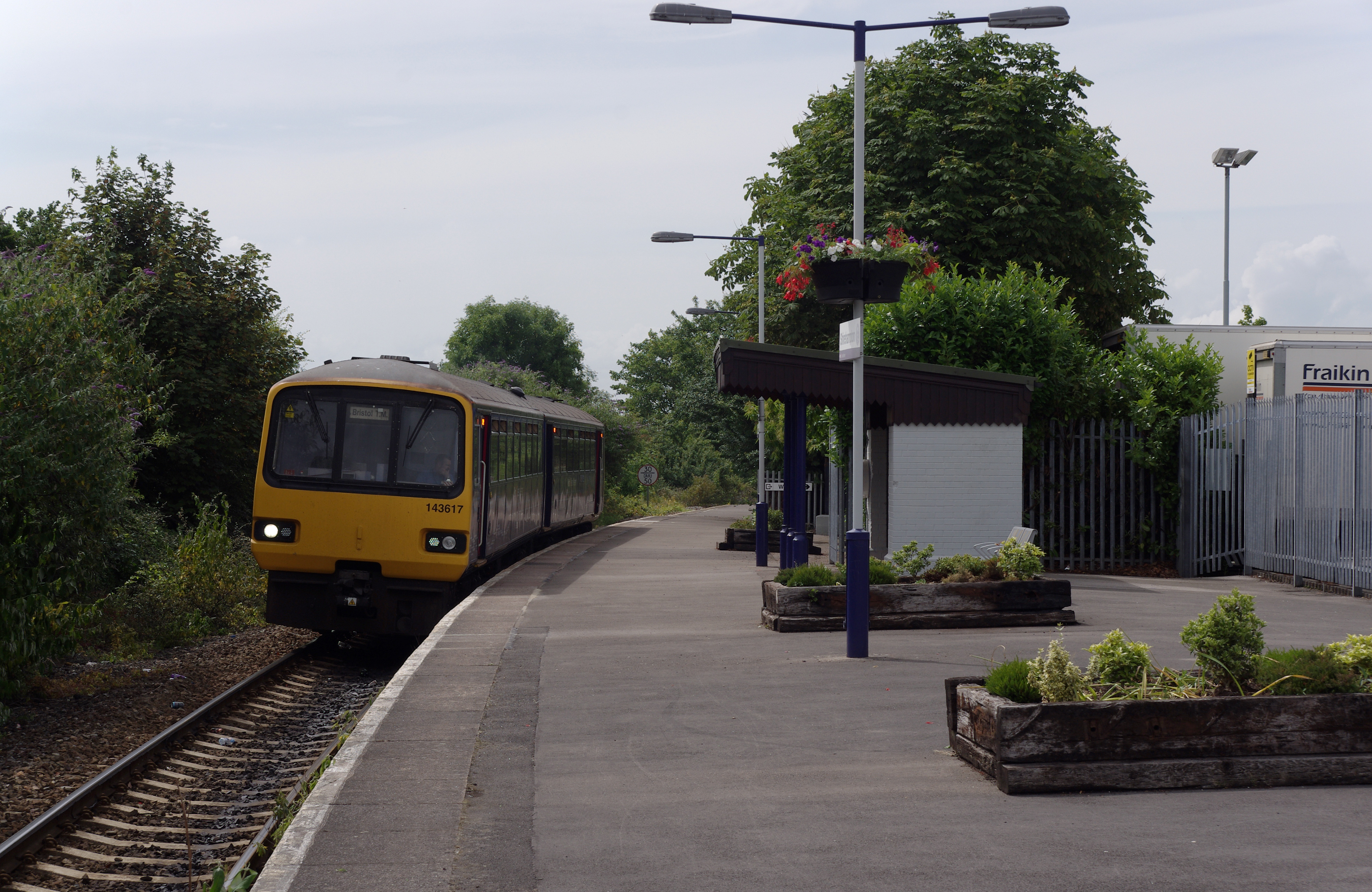 First Great Western 143617 arrives at Shirehampton railway station with a service to Bristol Temple Meads.